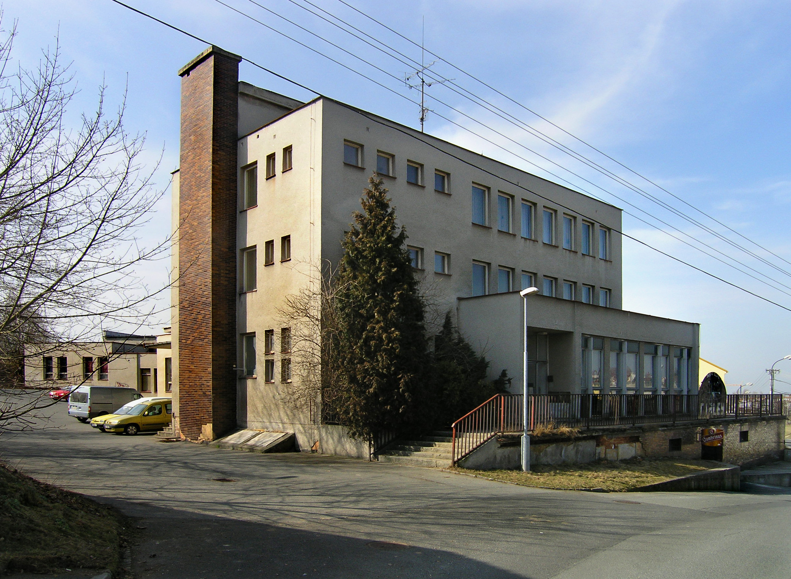 Agriculture building in Červený Hrádek, part of Plzeň town, Czech Republic; scene of legendary speech of Miloš Jakeš "Lonely fence-post"